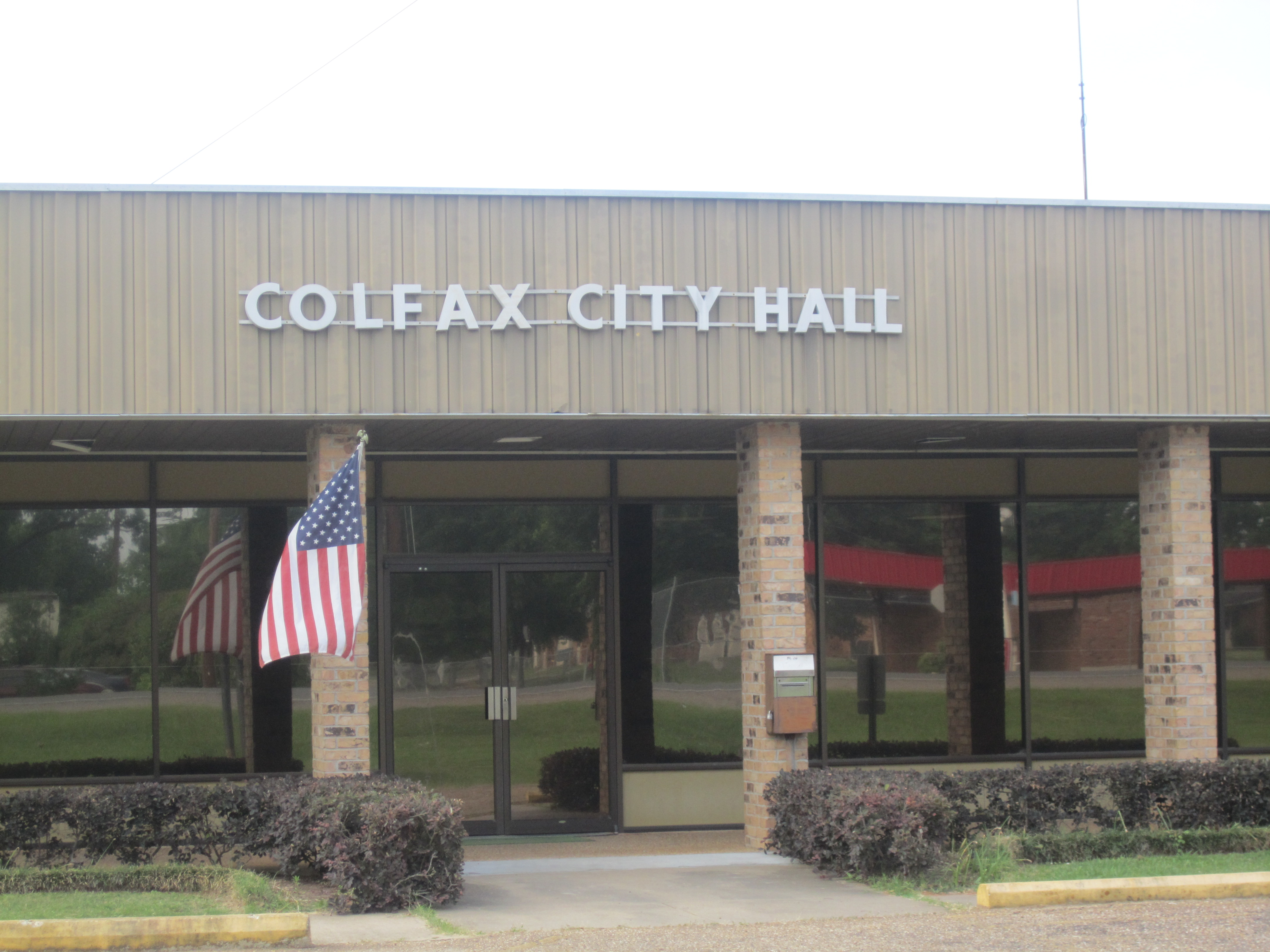 I took photo with Canon camera of Colfax, LA, City Hall.